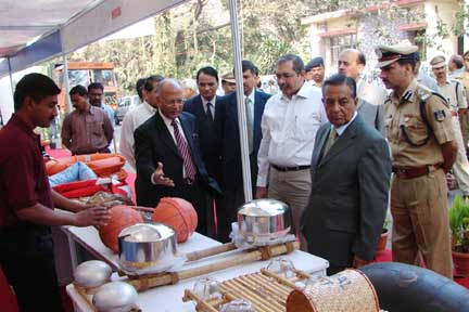 NDRF Exhibition at IIT Mumbai